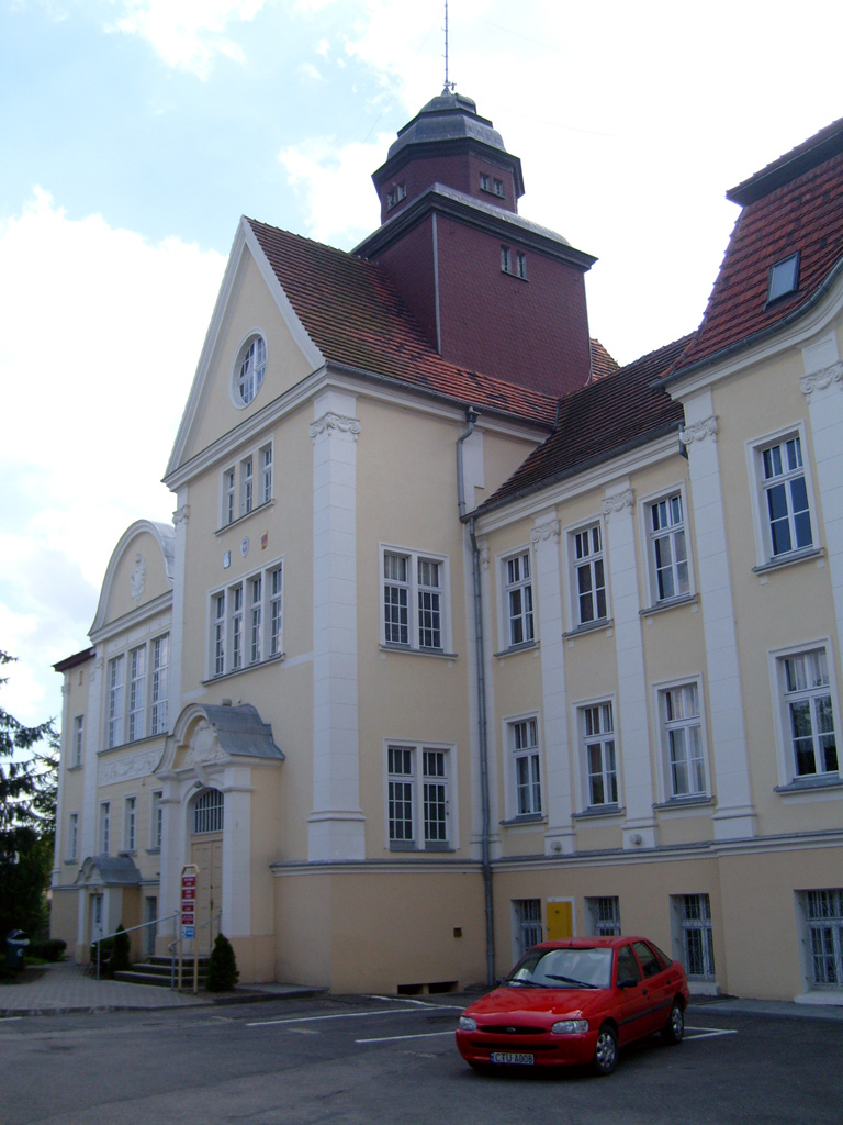 Tuchola, Poland - the barton of region council